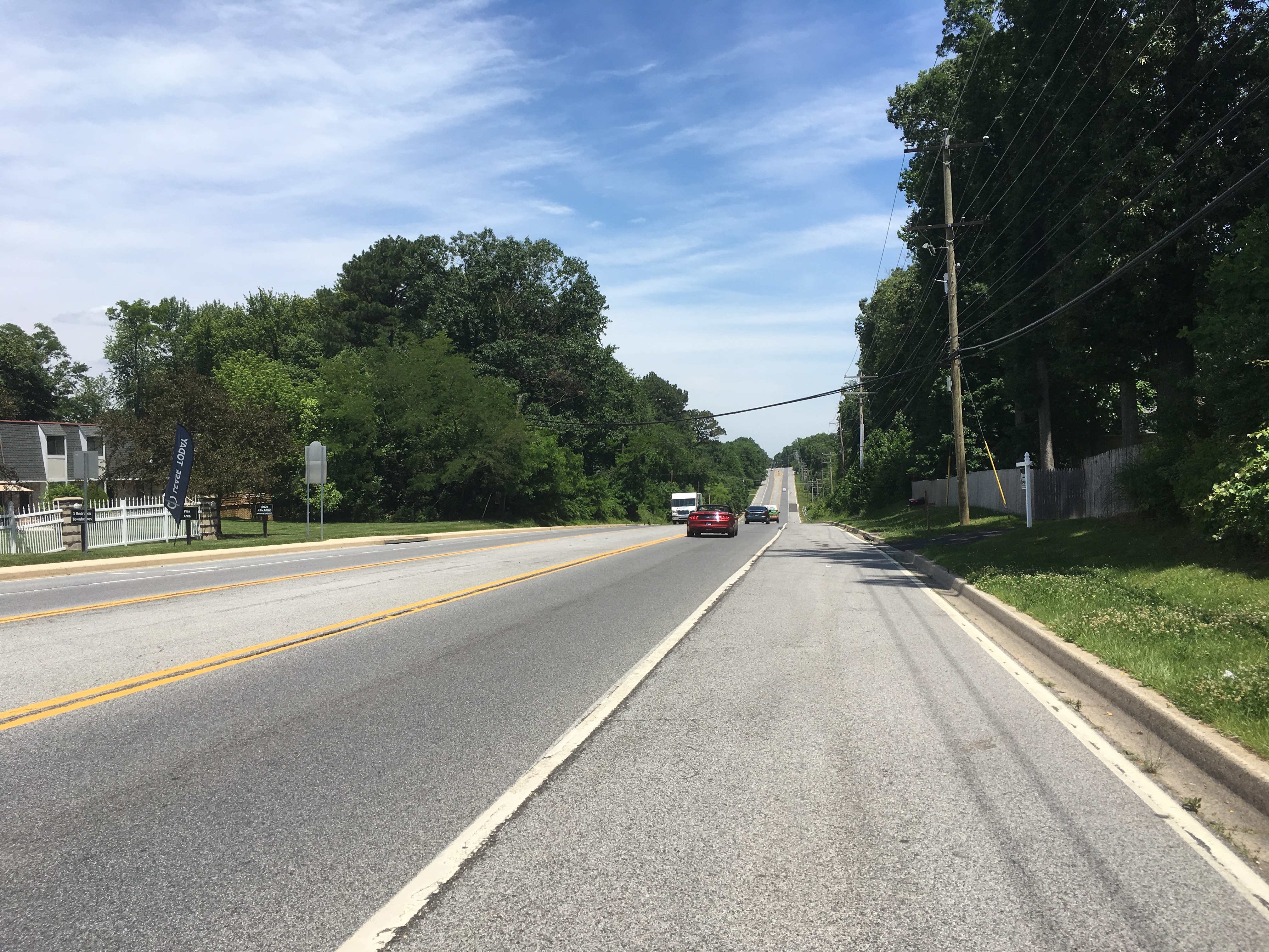 Eastbound Old Baltimore Pike past the intersection with Woodshade Drive in New Castle County, Delaware